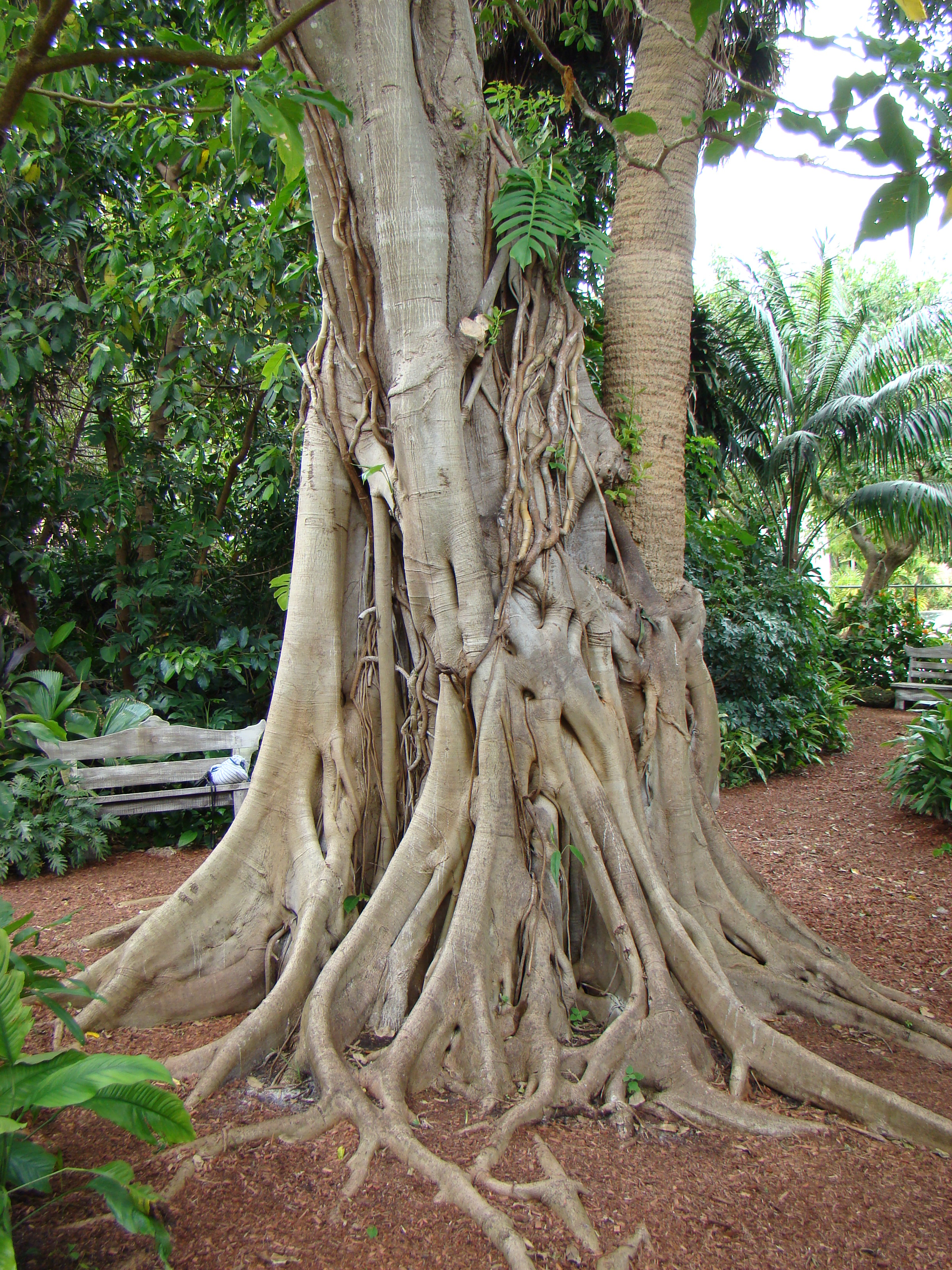 A Strangler Fig (Ficus aurea / Moraceae) had strangled a Sabal Palmetto tree located in the Mounts Botanical Garden, West Palm Beach, Florida.